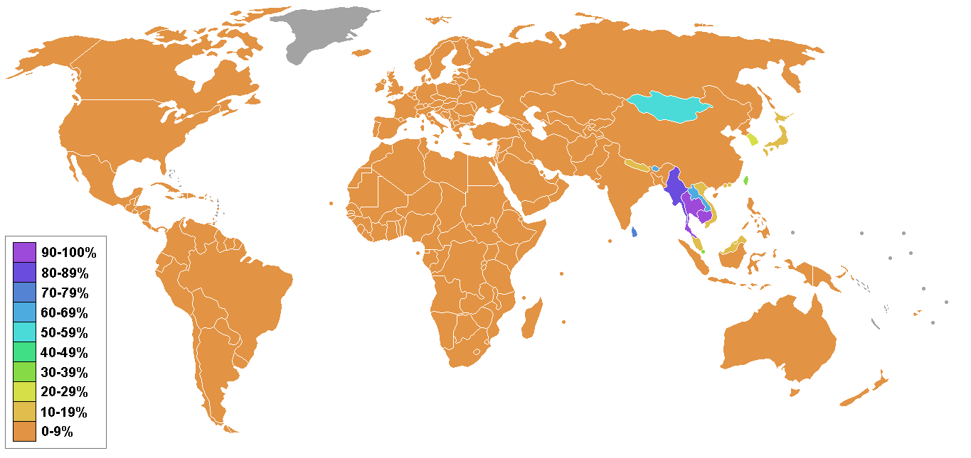 Map of the distribution of the numbers of formal Buddhists who have taken the Refuge in Three Jewels. According to the latest national estimates.